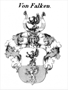 Coat of Arms of the von Falken family, Prussia